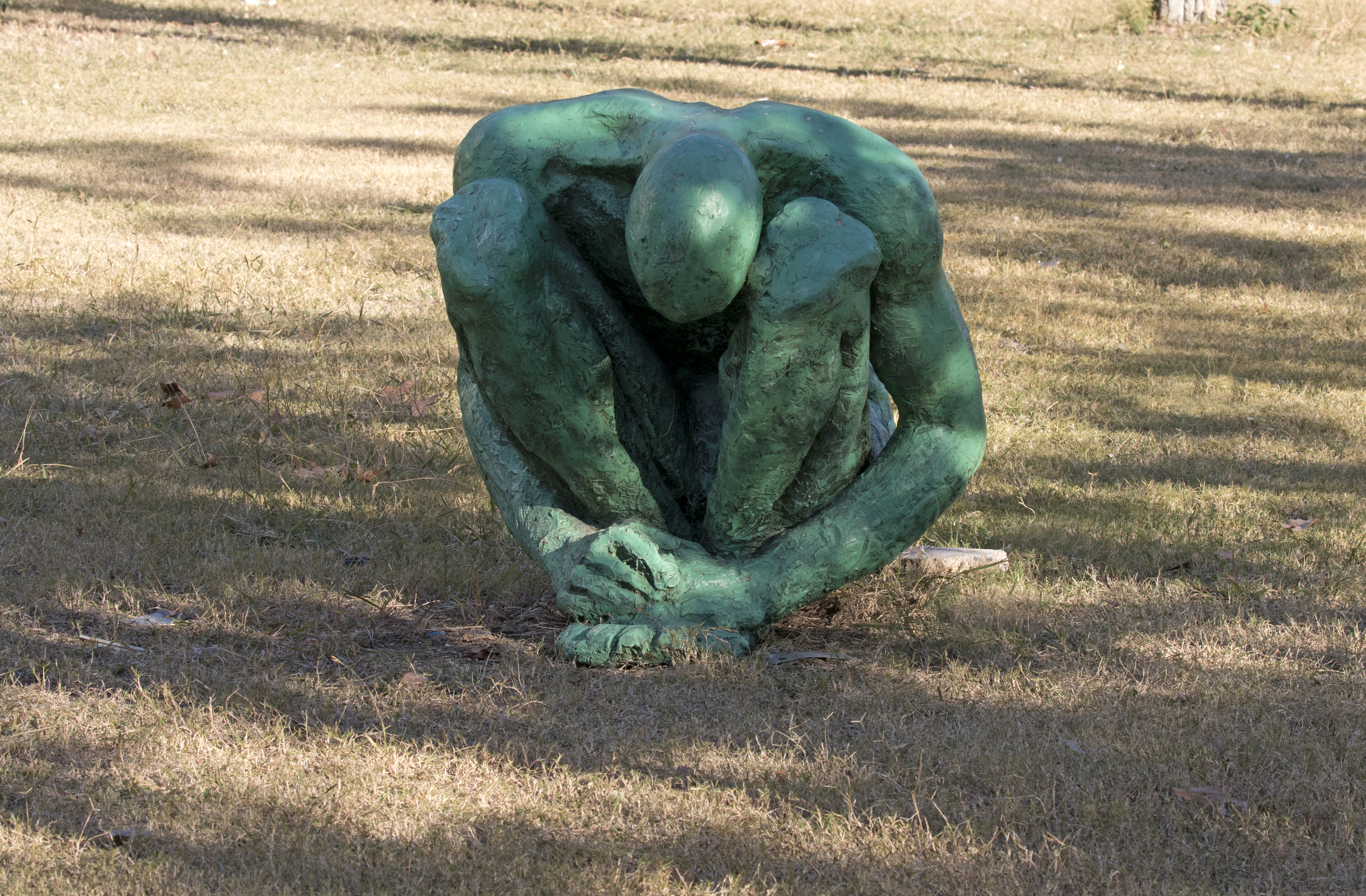 A sculpture at the Çukurova University Campus in Balcalı - Sarıçam, Adana - Turkey.